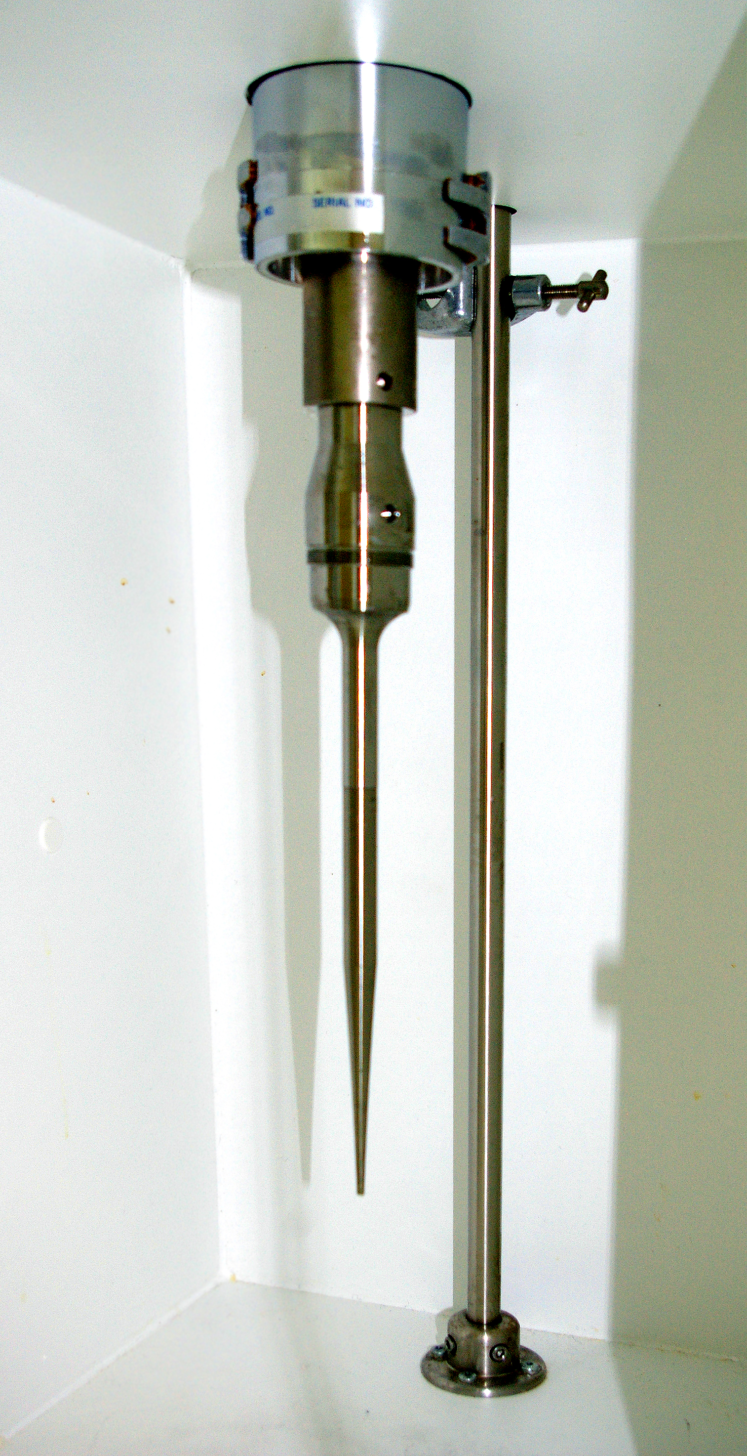 Laboratory sonicator head